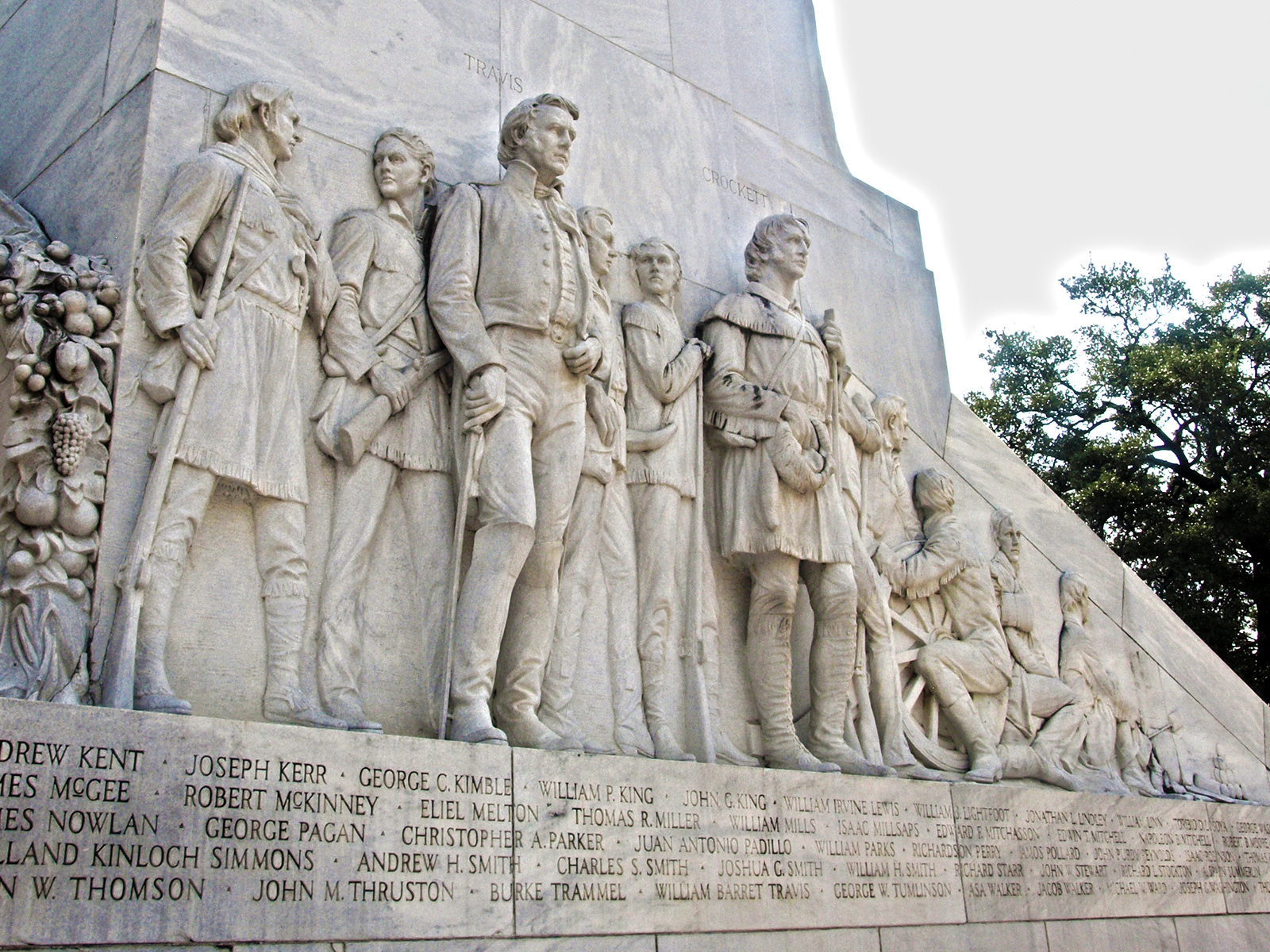 Alamo Memorial with Travis and Crockett